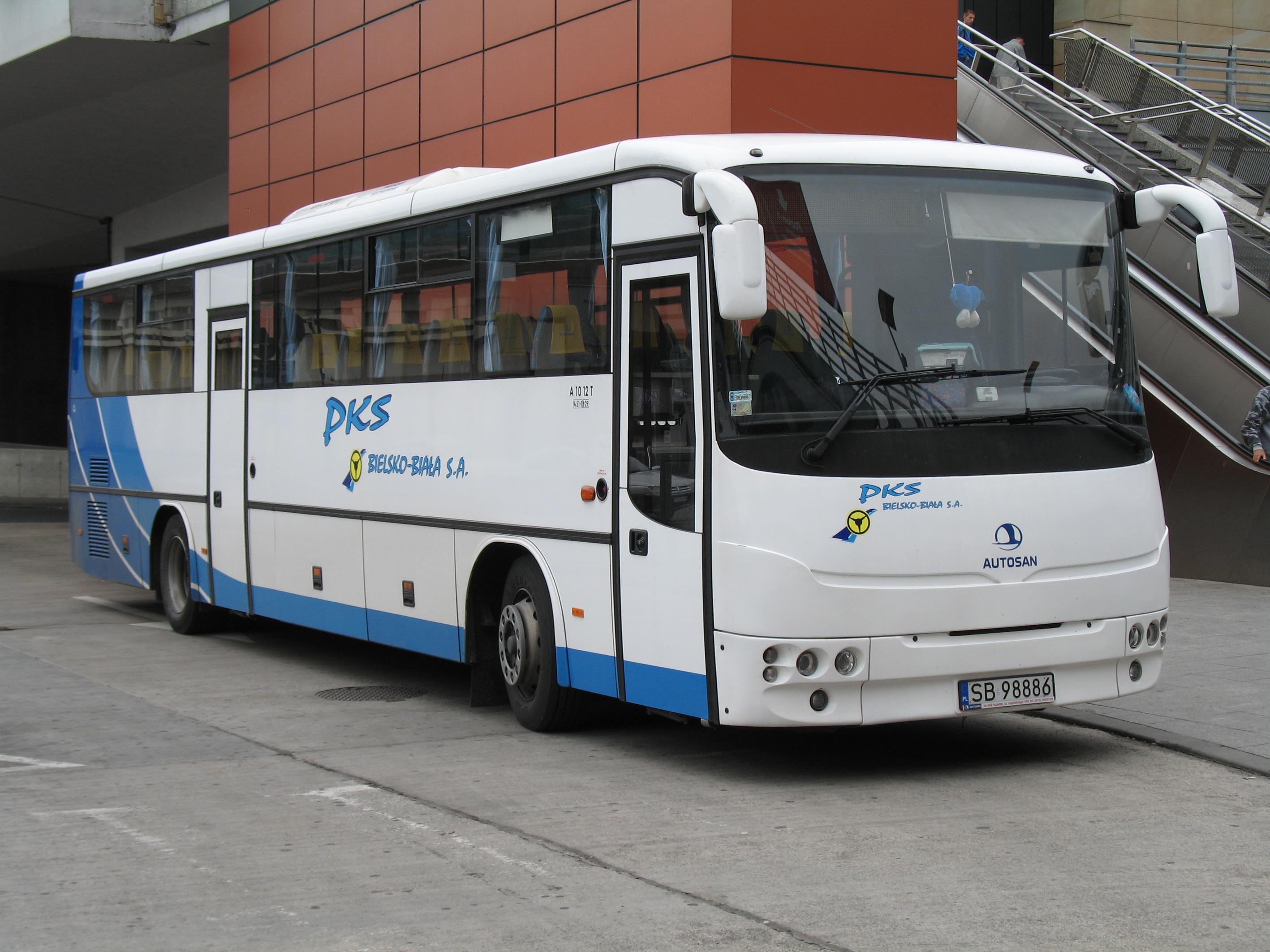 Autosan A1012T.05.09 Lider bus in Kraków, Poland. Built 2006, PKS Bielsko-Biała operator.